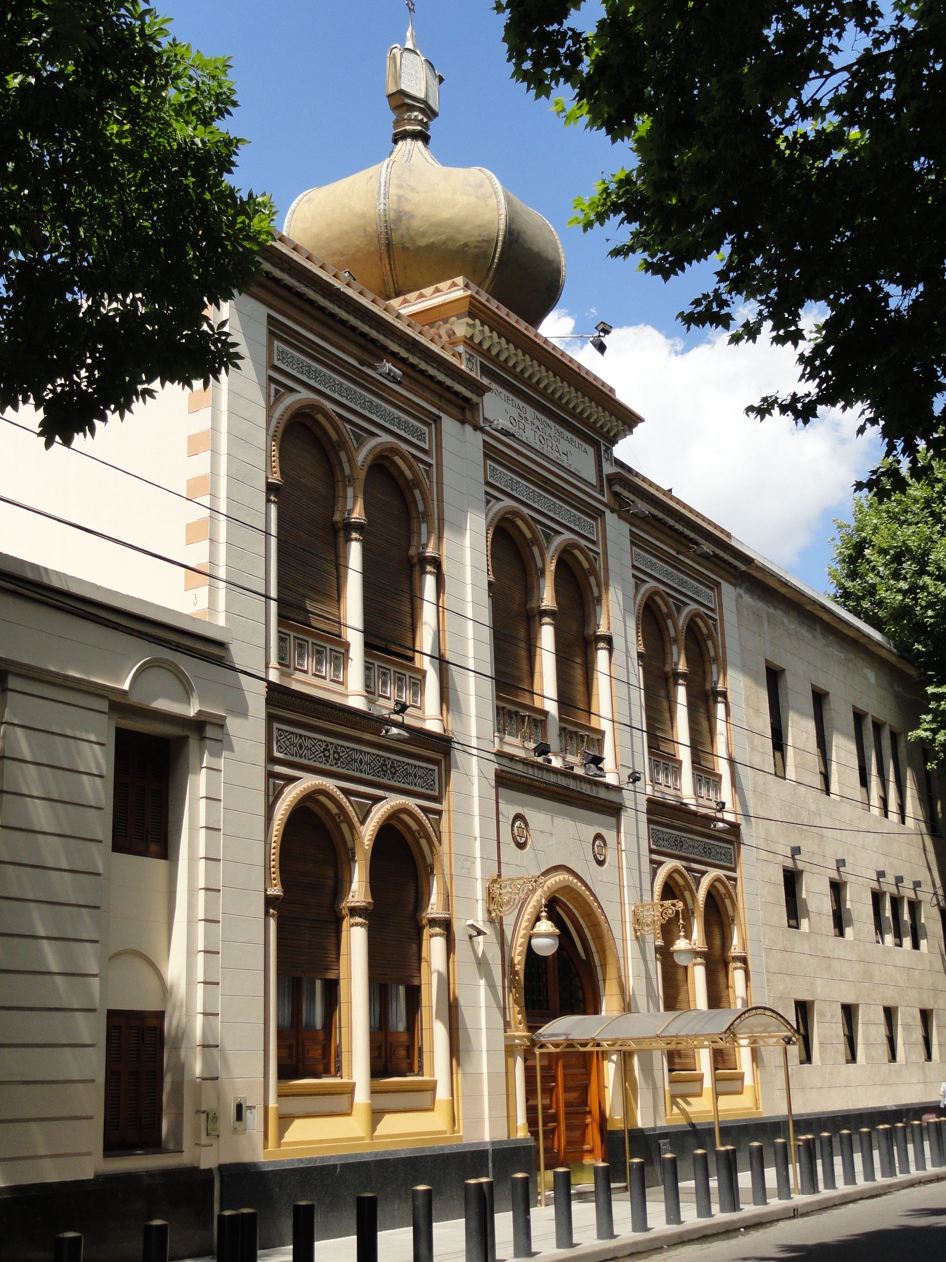 Syrian sephardi synagogue Or Torah in Buenos Aires (Argentina)